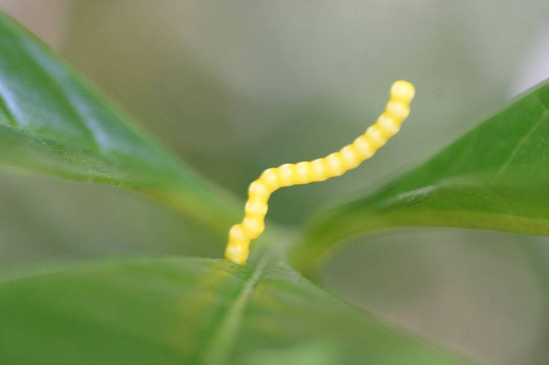 Eggs of Malabar Banded Swallowtail Papilio liomedon Family Papilionidae, Lepidoptera